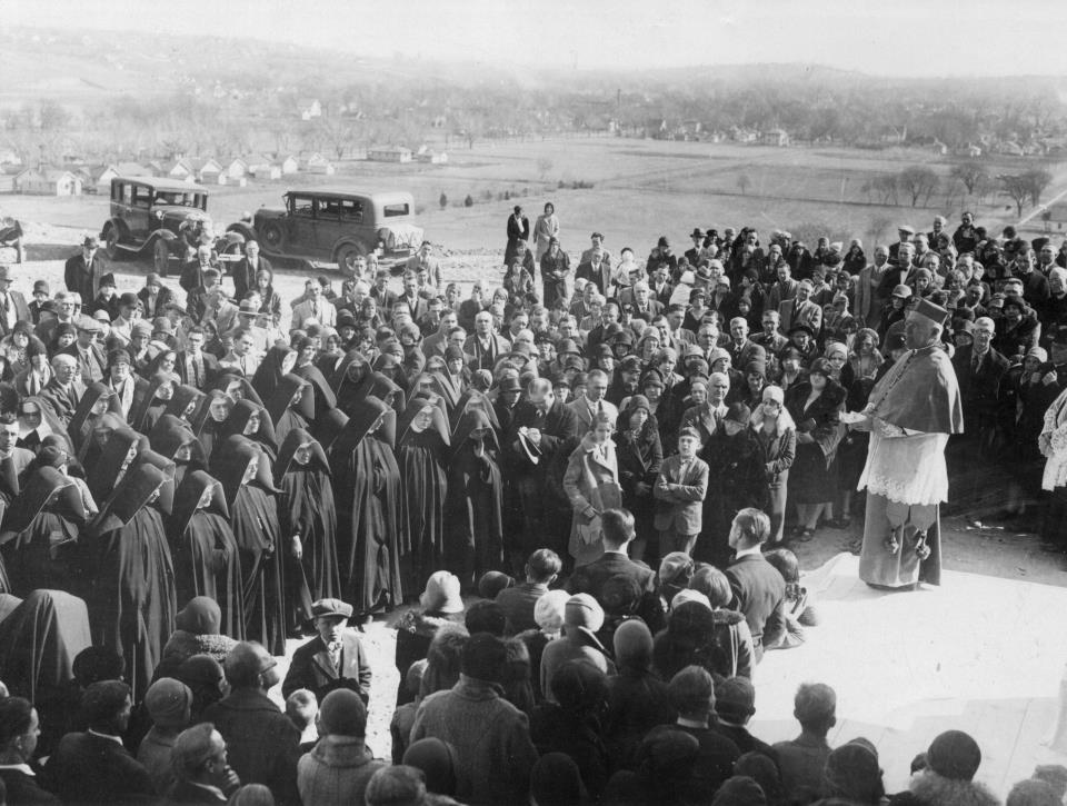 This image shows the dedication of Heelan Hall on the campus of Briar Cliff University, 1930.